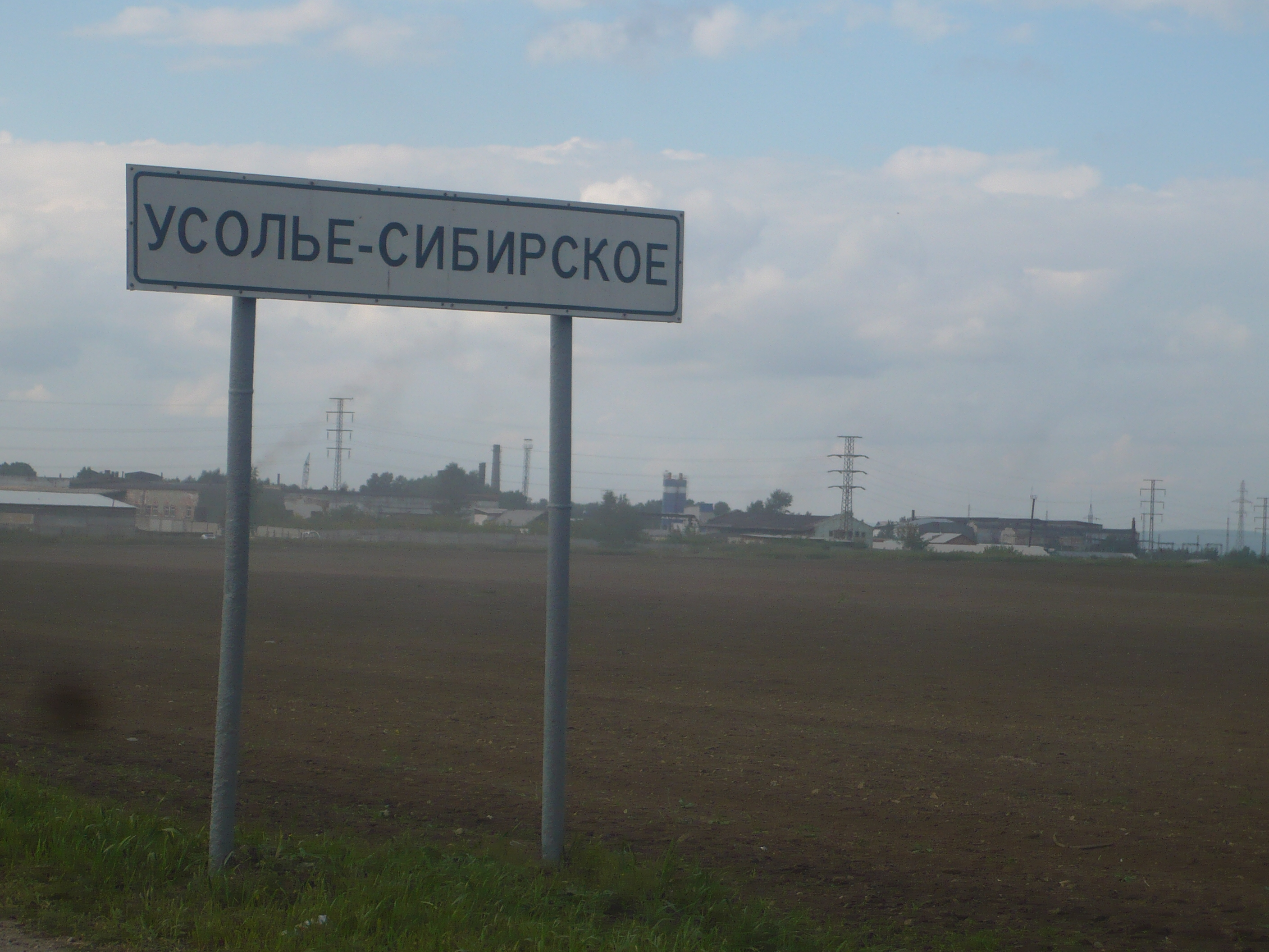 Kind of right at the entrance to Usolye-Siberian by road from the M53 Irkutsk